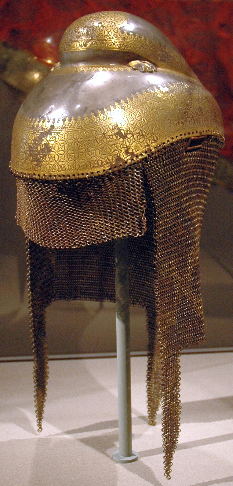 Indian helmet with butted mail neckguard, 1820-1840, iron overlaid with gold with mail neckguard of iron and brass, probably from Lahore, Punjab province which is now part of Pakistan, Gift of the Kapany Collection. The unusual shape of this rare helmet was dictated by the needs of the Sikh warrior who wore it into battle with his uncut hair rolled into a topknot beneath it. Uncut hair was among the five emblems of solidarity adopted in the 1600s by Sikhs suffering from religious persecution. Traditionally associated with South Asian ascetics, uncut hair came to represent Sikh religious devotion. The steel and brass links of the helmet's mail neckguard are arranged in a diamond pattern (ganga jamni) that is said to reflect the churning waters at the confluence of the Ganga (Ganges) and Yamuna, India's greatest rivers. H. 15 3/4 in x W. 7 in x D. 9 in, H. 40 cm x W. 17.8 cm x D. 22.9 cm.